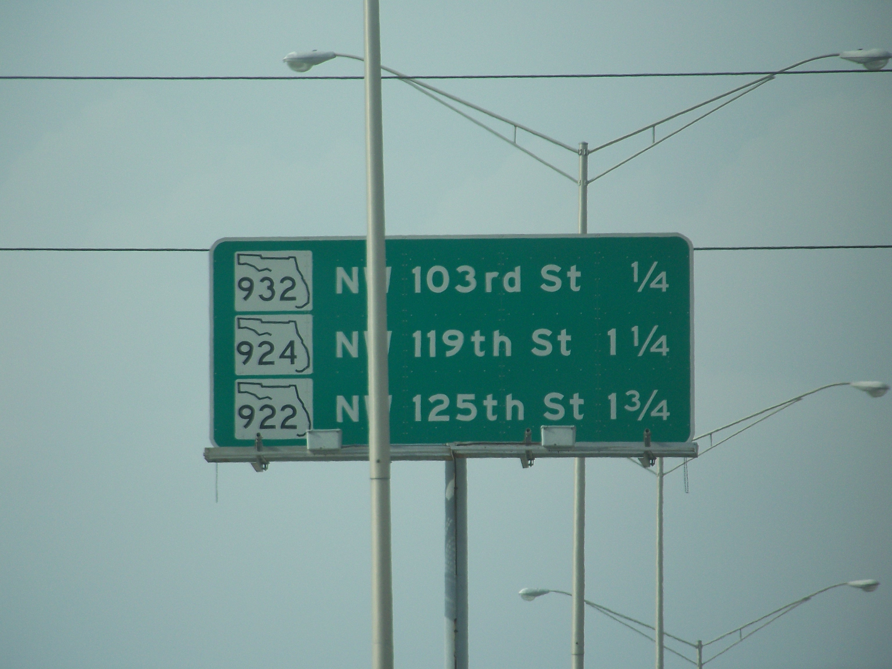 Signage for Florida Routes 32, 24 and 22.